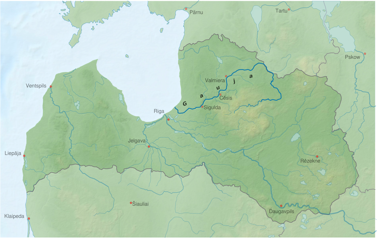 Map of river Gauja in Latvia and Estonia based on relief-location maps by users: NNW, Виктор В, Alexrk2, Chumwa, Karlis